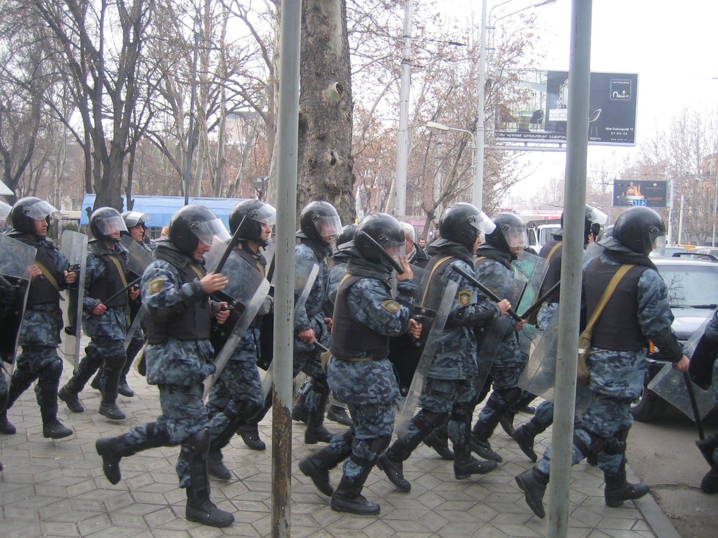 The 11th day of Armenian presidential election protests. At 7:30 am, the peaceful "camp-in" protest at Liberty Square in Yerevan was violently ended by Armenian special forces which used truncheons and electric shock devices to disperse the crowd of around 1,000. In this picture taken around noon, a group of riot police randomly march in formation in and around the square in a show of force.